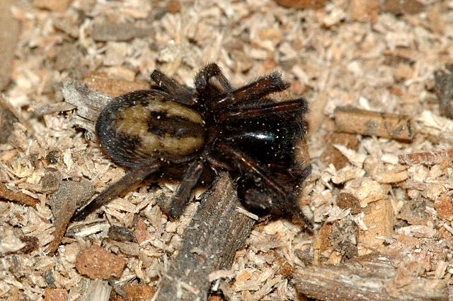 female Amaurobius similis from Commanster, Belgian High Ardennes .